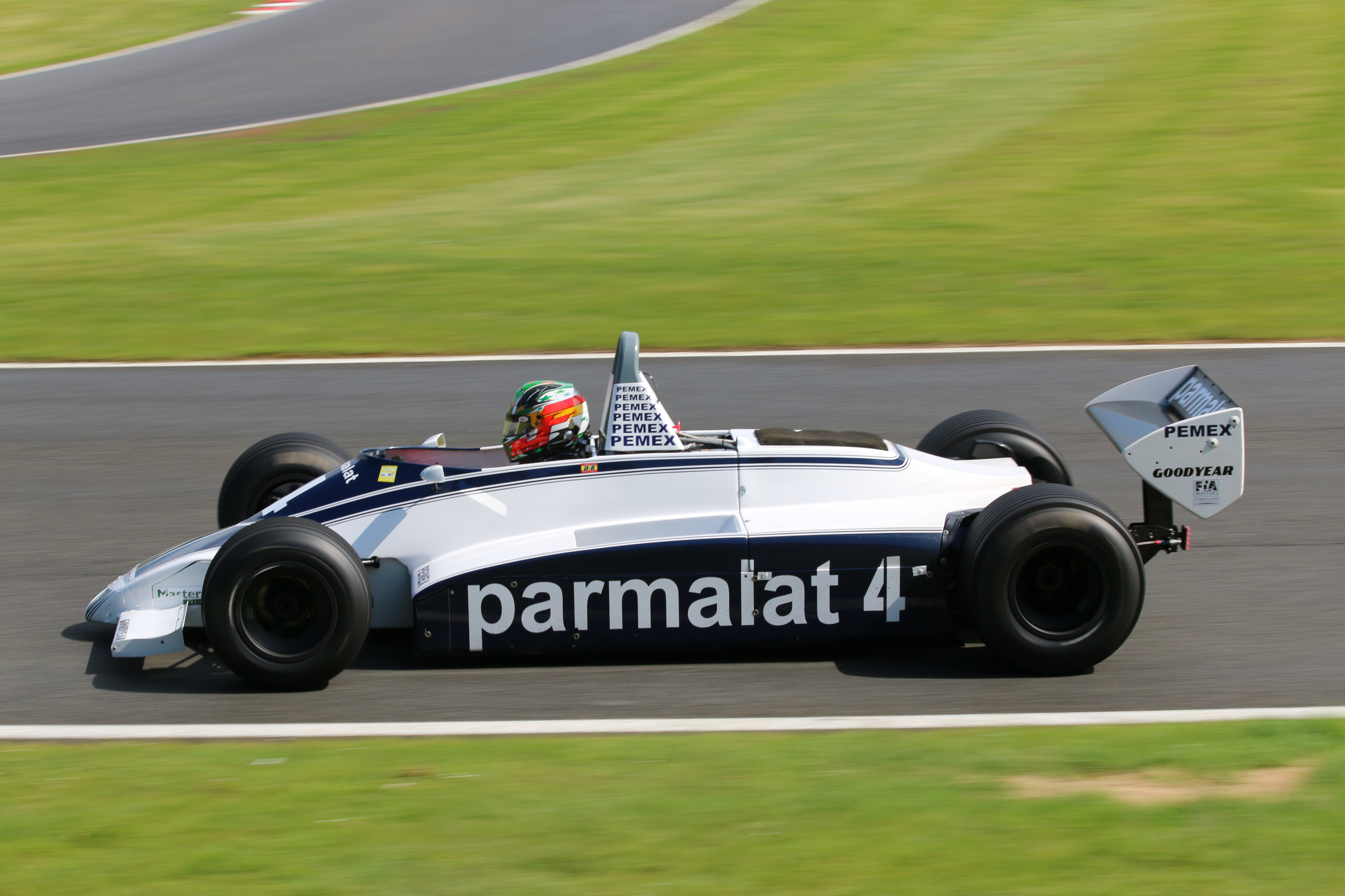 Brabham BT49 in exhibition in 2017.